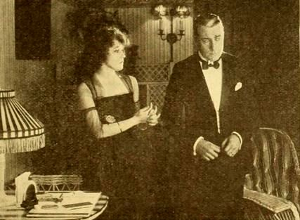 Still from the American drama film The Man Who Stayed at Home (1919) with Claire Whitney and King Baggot, on page 1171 of the March 1, 1919 Moving Picture World.